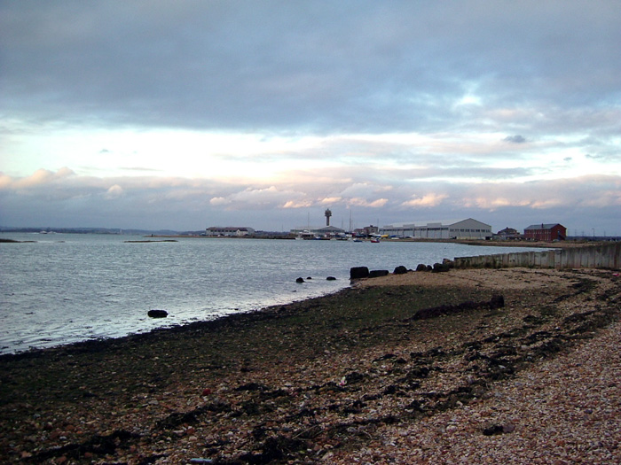 Calshot Spit, Hampshire, January 3rd 2005, by User:Steinsky.